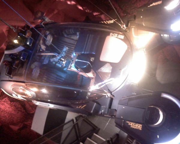 (sent from my SmartPhone)